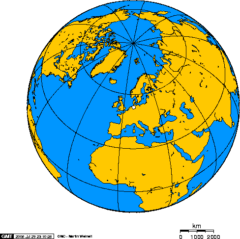 Orthographic projection centred over Bremen.